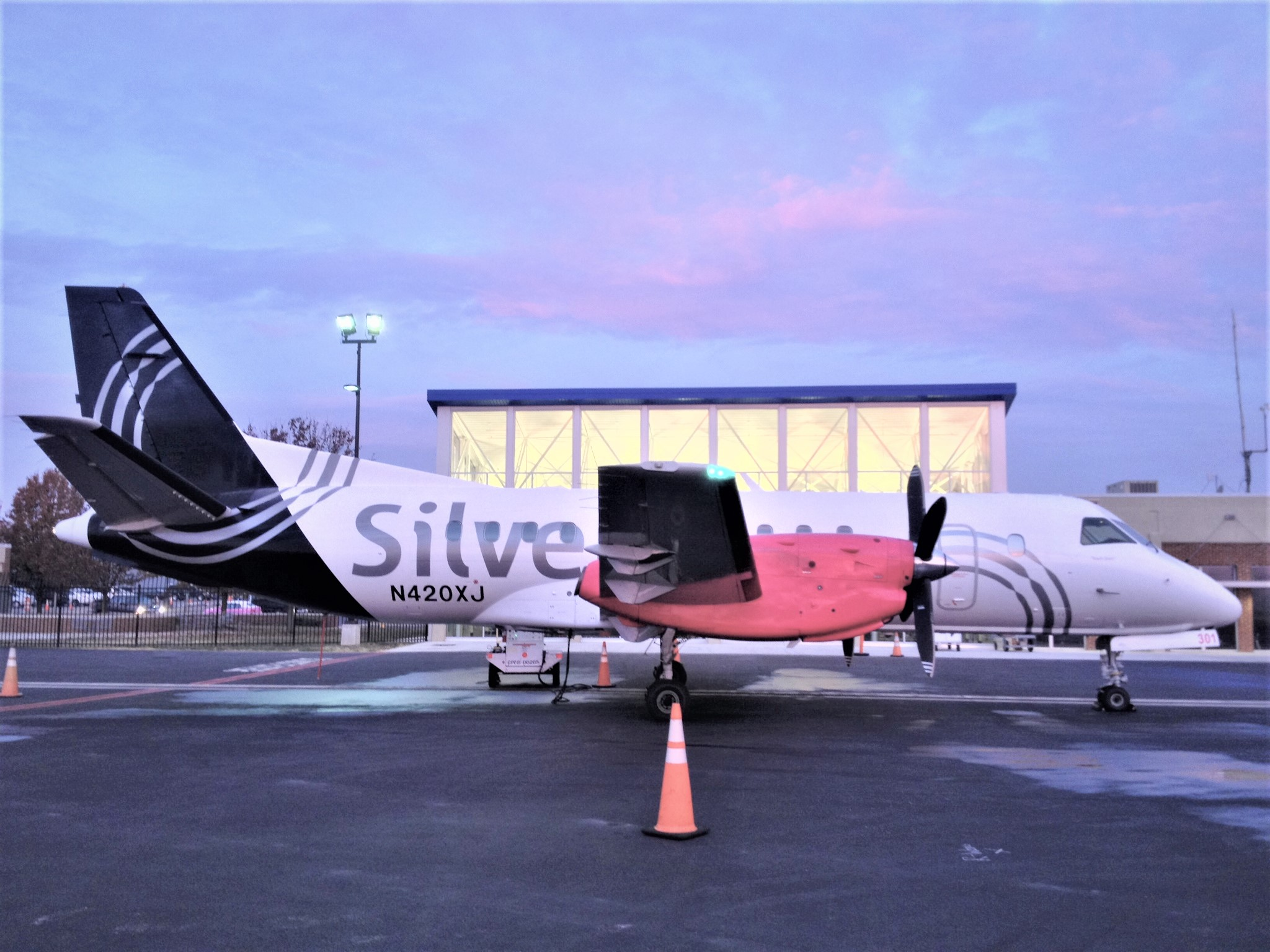 Silver Airways Saab 340B